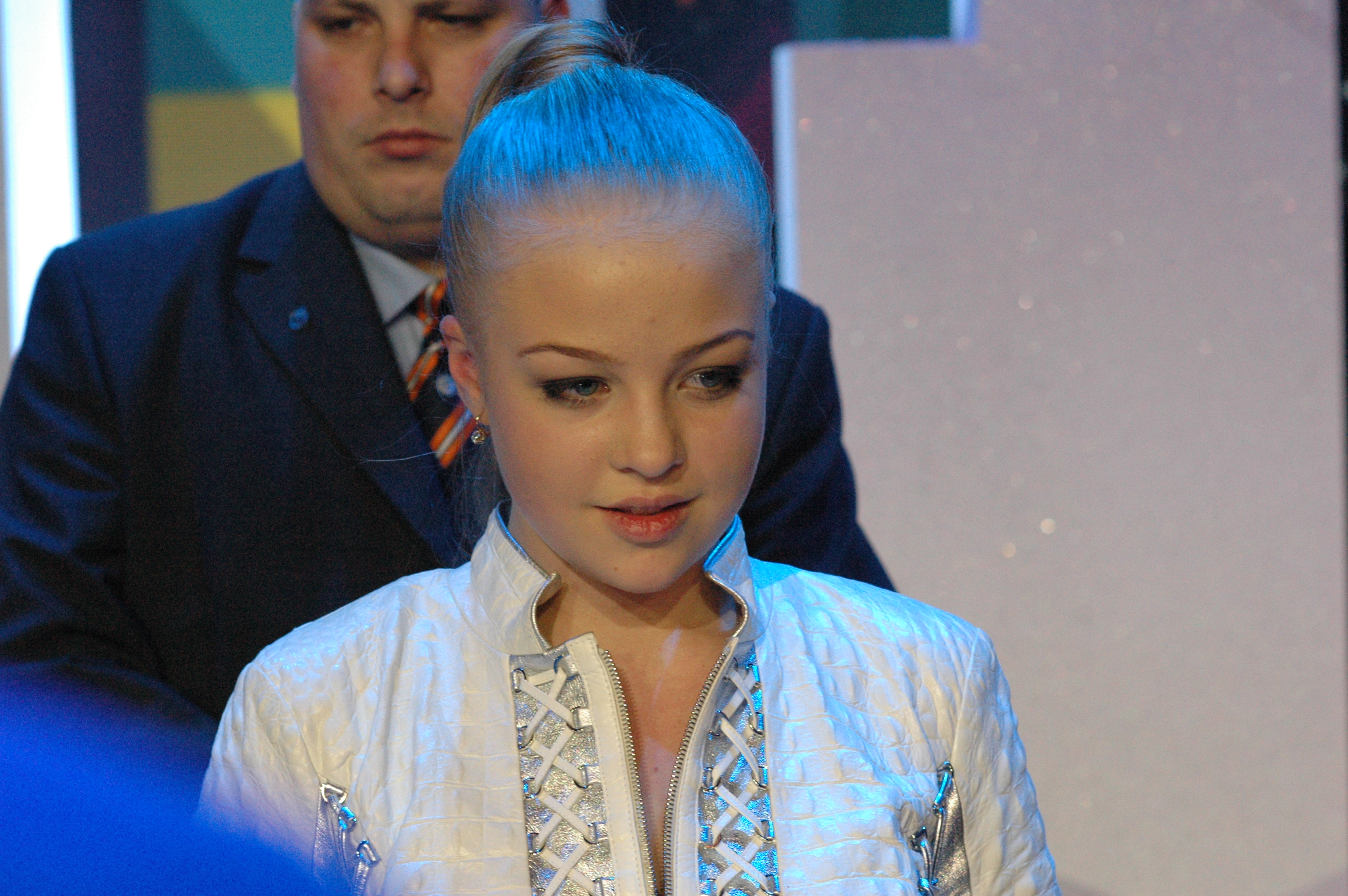 Viktoriya Petryk. Junior Eurovision 2012